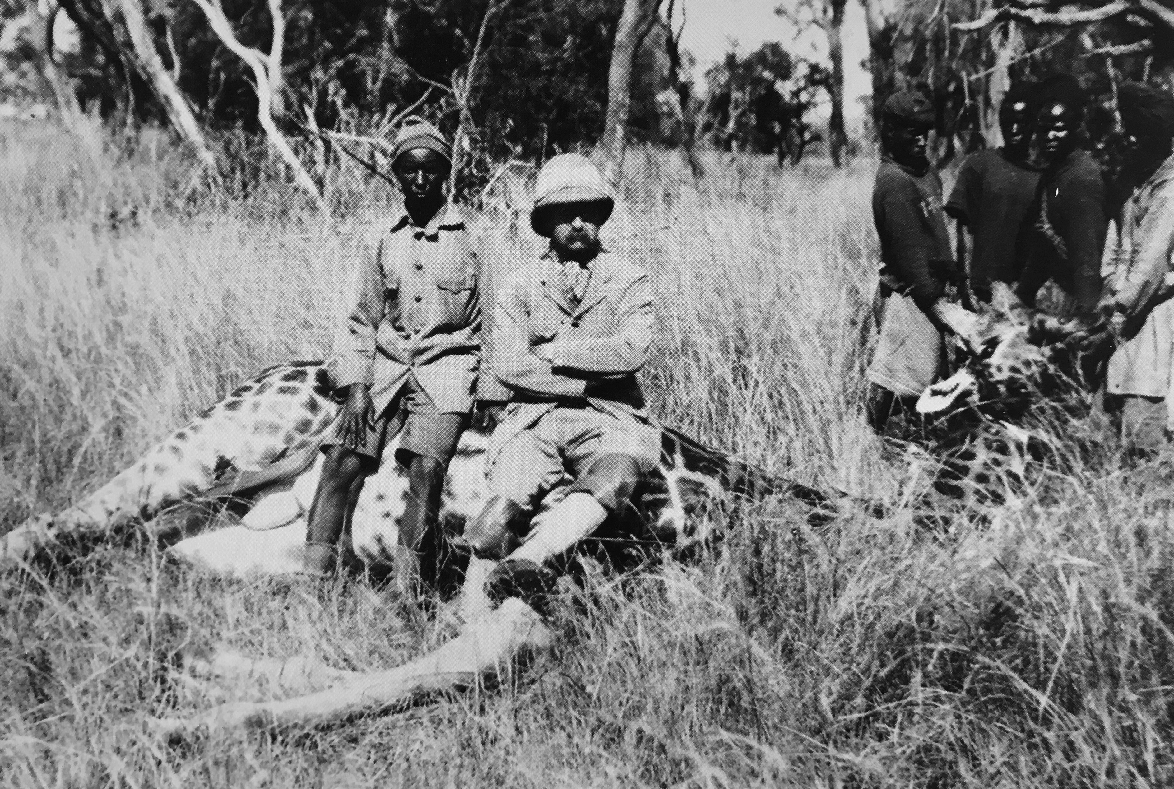 The 17th Duke of Medinaceli, Luis Fernández de Córdoba y Salabert posing along the Gamekeepers with a harvested Giraffe during the 1908-1909 British East Africa Safari.